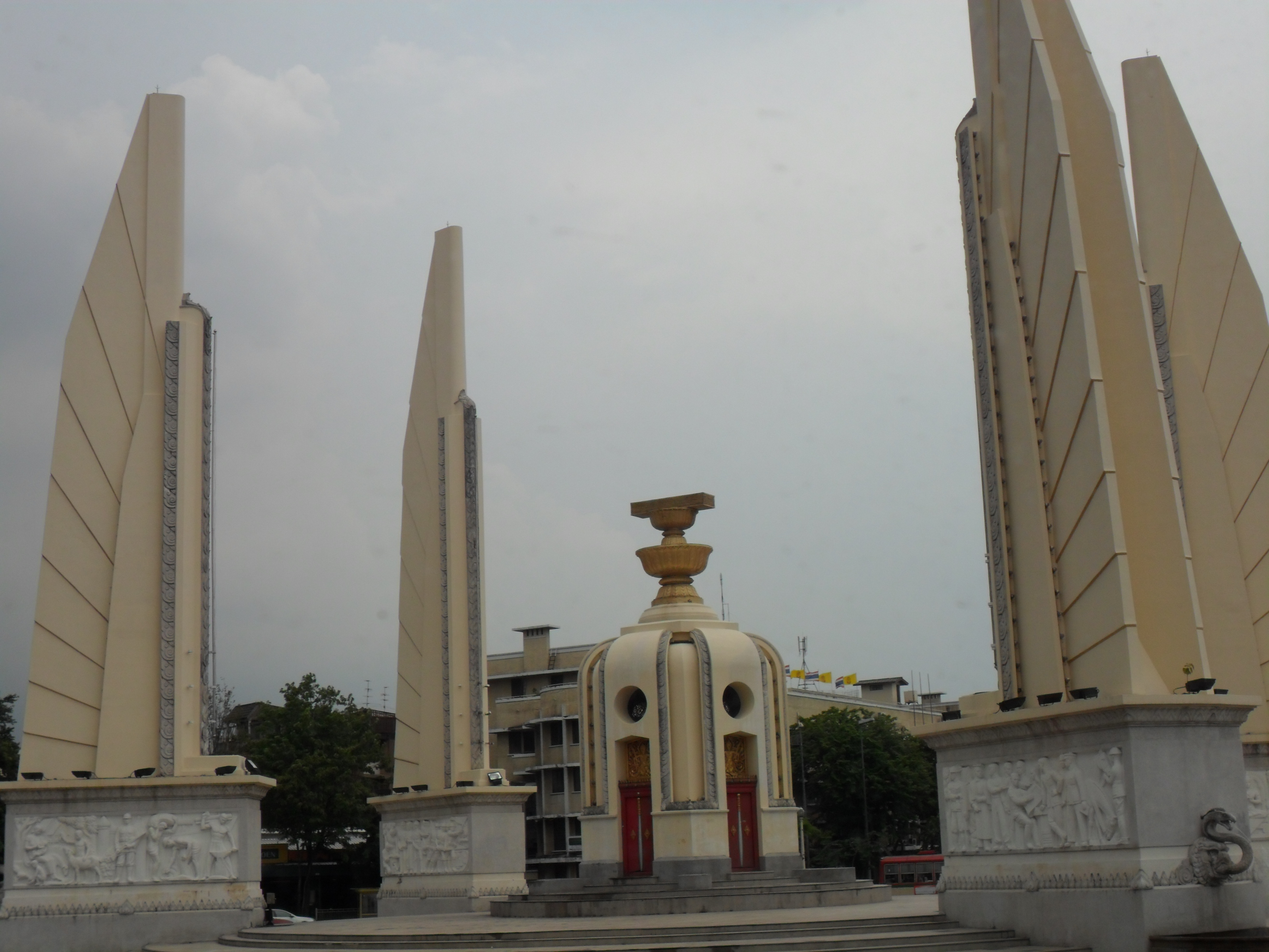 Democracy Monument in Bangkok.